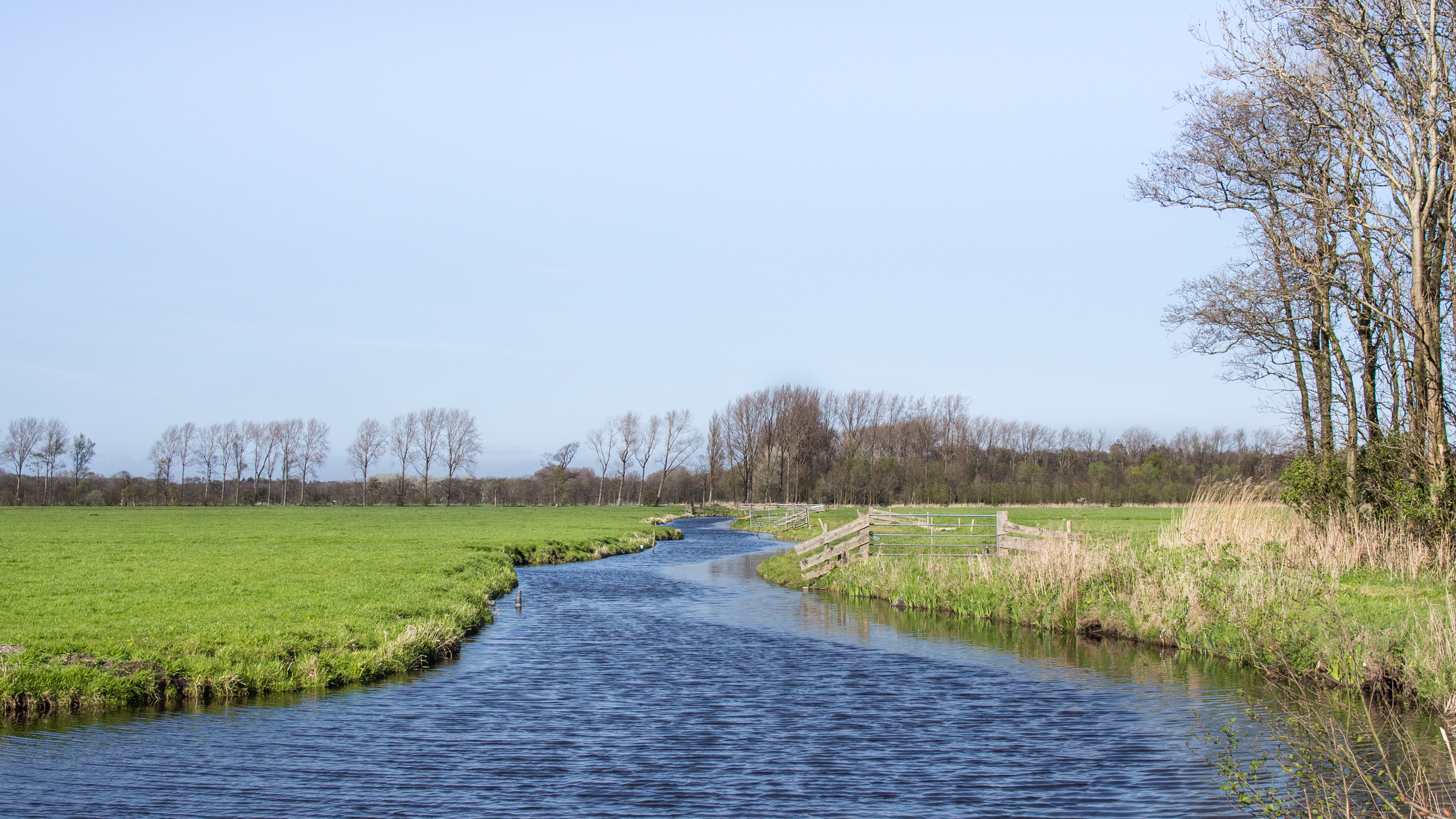 The Duivenvoordse en Veenweidse Polder was reclaimed in the Middle Ages. It is now a protected area. The woods on the right and in the distance are old coppices that were also created in the Middle Ages.